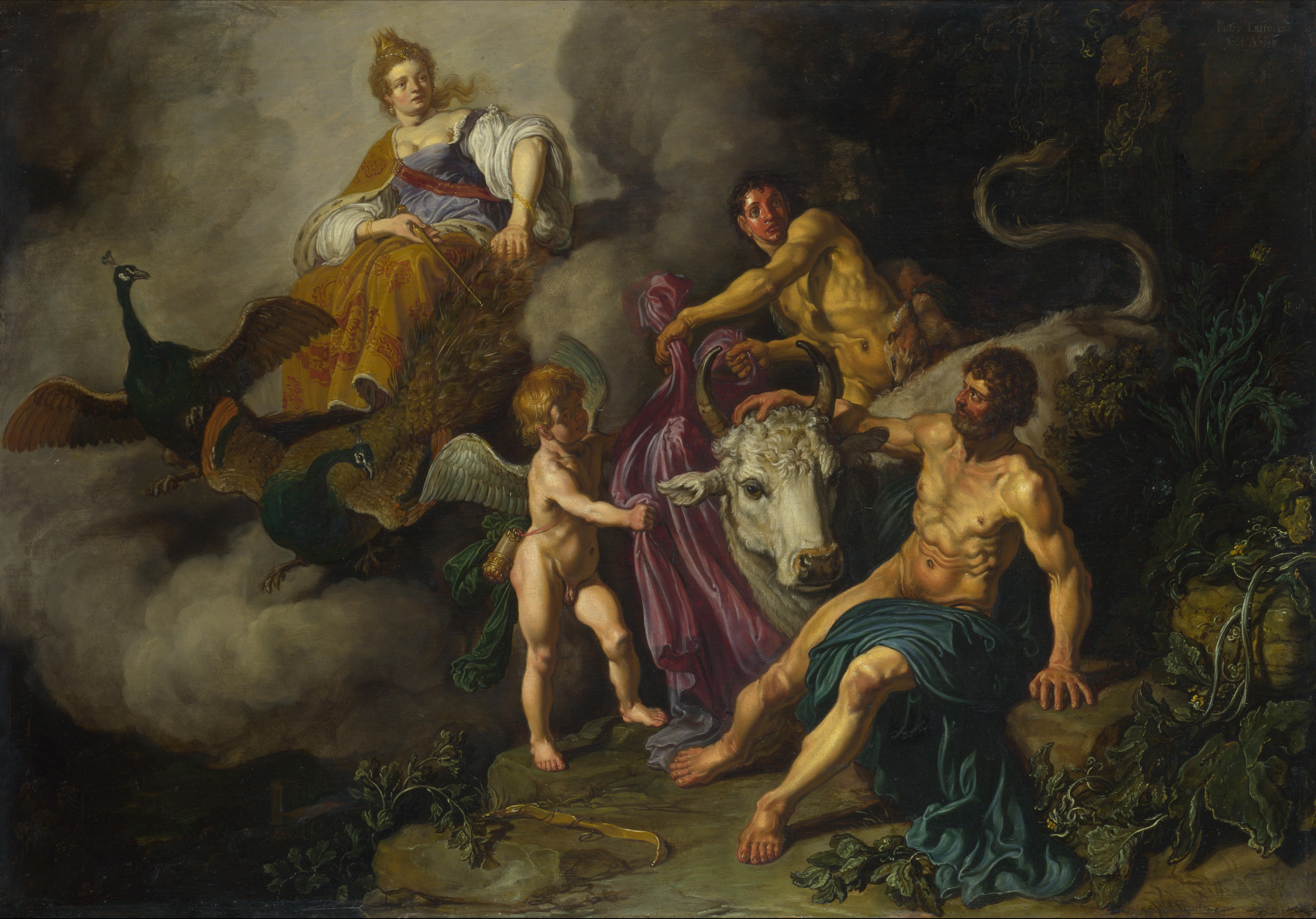 Jupiter looks up with startled eyes at the enraged Juno, who is accompanied by the peacocks that are her attribute. Two figures pull back a cloth from the head of the transformed Io: Cupid, his bow at his feet, and an allegory of Deceit, wearing a mask.